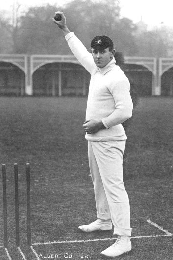 Image of Australian cricketer Tibby Cotter, taken pre-1955. This image is of Australian origin and is now in the public domain because its term of copyright has expired. According to the Australian Copyright Council (ACC), ACC Information Sheet G023v17 (Duration of copyright) (August 2014).3 Type of materialCopyright has expired if … A Photographs or other works published anonymously, under a pseudonym or the creator is unknown:taken or published prior to 1 January 1955BPhotographs (except A):taken prior to 1 January 1955CArtistic works (except A & B):the creator died before 1 January 1955DPublished editions1 (except A & B):first published more than 25 years agoECommonwealth, State or Territory owned2 photographs and engravings:taken or published more than 50 years ago 1 means the typographical arrangement and layout of a published work. eg. newsprint. 2 owned means where a government is the copyright owner as well as would have owned copyright but reached some other agreement with the creator. 3 Copyright Amendment (Disability Access and Other Measures) Bill 2017 (Australian Government) When using this template, please provide information of where the image was first published and who created it.